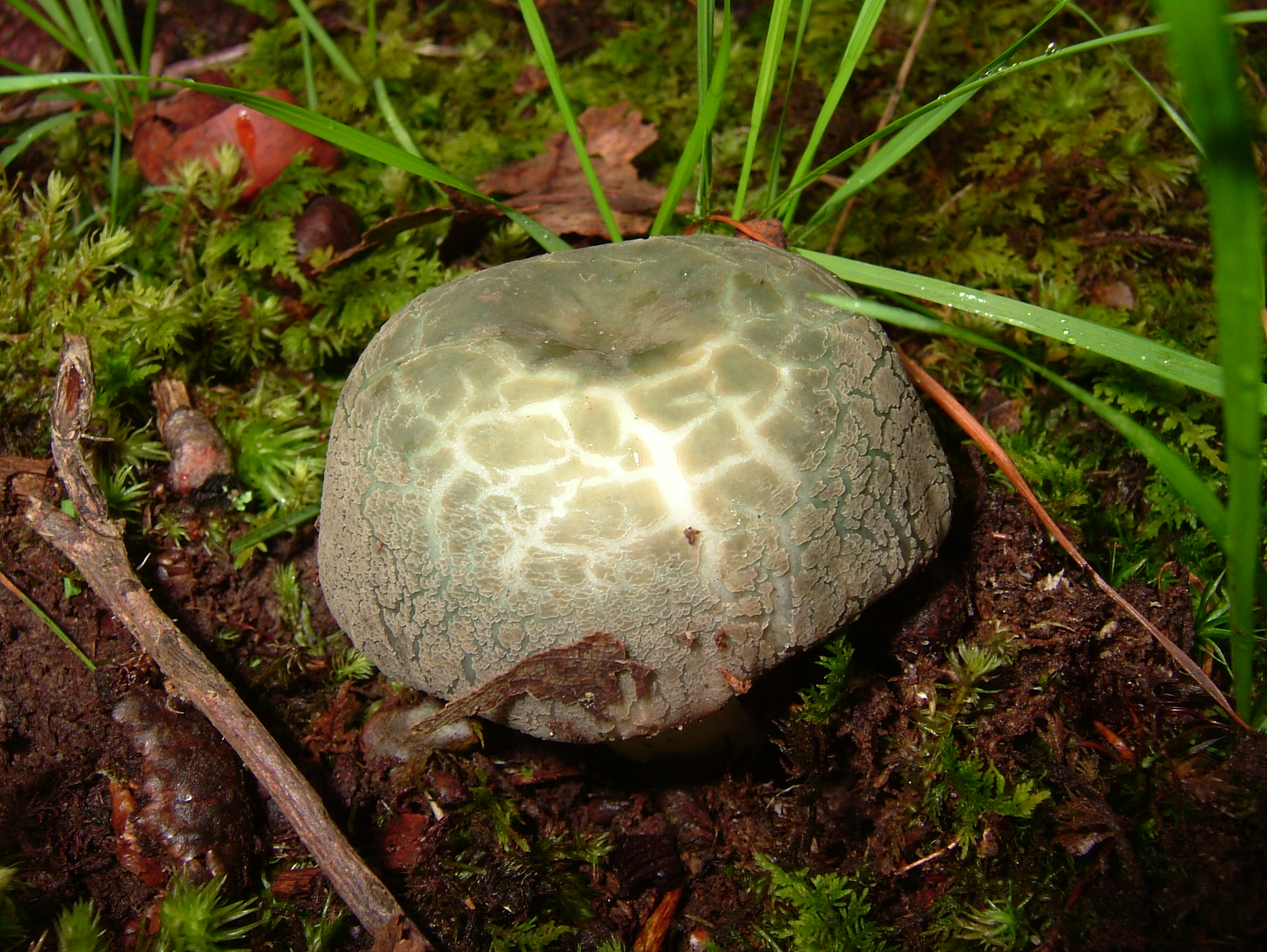 A fruit body of the fungus Russula virescens (Schaeff.) Fr. Photographed in Pattenburg, Hunterdon Co., New Jersey, USA.